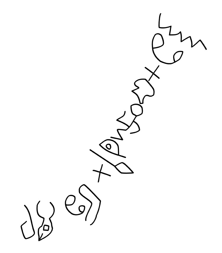 Wadi el-Hol inscriptions no° II, drawing. a Proto-Canaanite alphabet. found in 1998, dated to the 18th c. BCE.